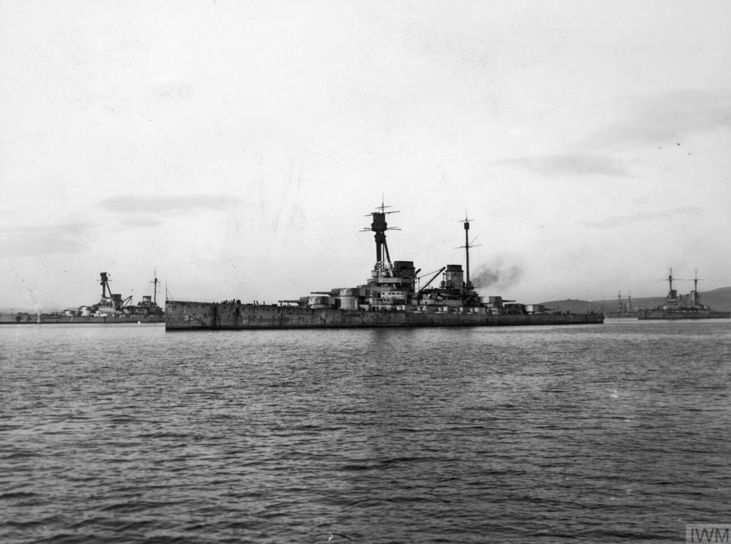 German battlecruiser SMS Hindenburg interned at Scapa Flow. Partially seen on the left edge of the photo is her sister ship SMS Derfflinger.